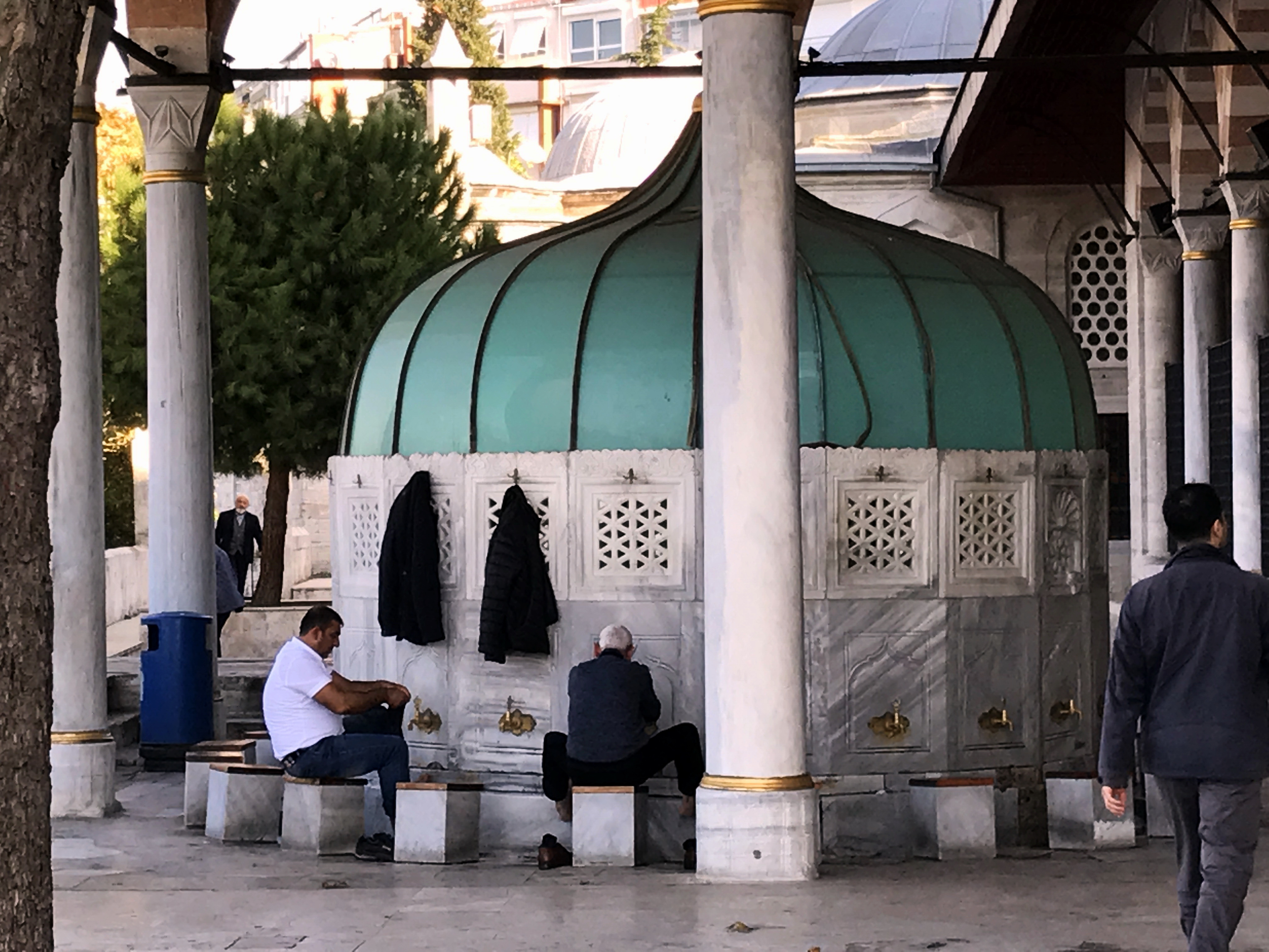 Mihrimah Sultan Mosque (built 1548), is an Ottoman mosque located in the historic center of the Üsküdar municipality in Istanbul, Turkey. It is the first of two mosques built by Mihrimah Sultan, daughter of Sultan Suleiman the Magnificent and wife of Grand Vizier Rüstem Pasha. It was designed by Mimar Sinan and built between 1546 and 1548.